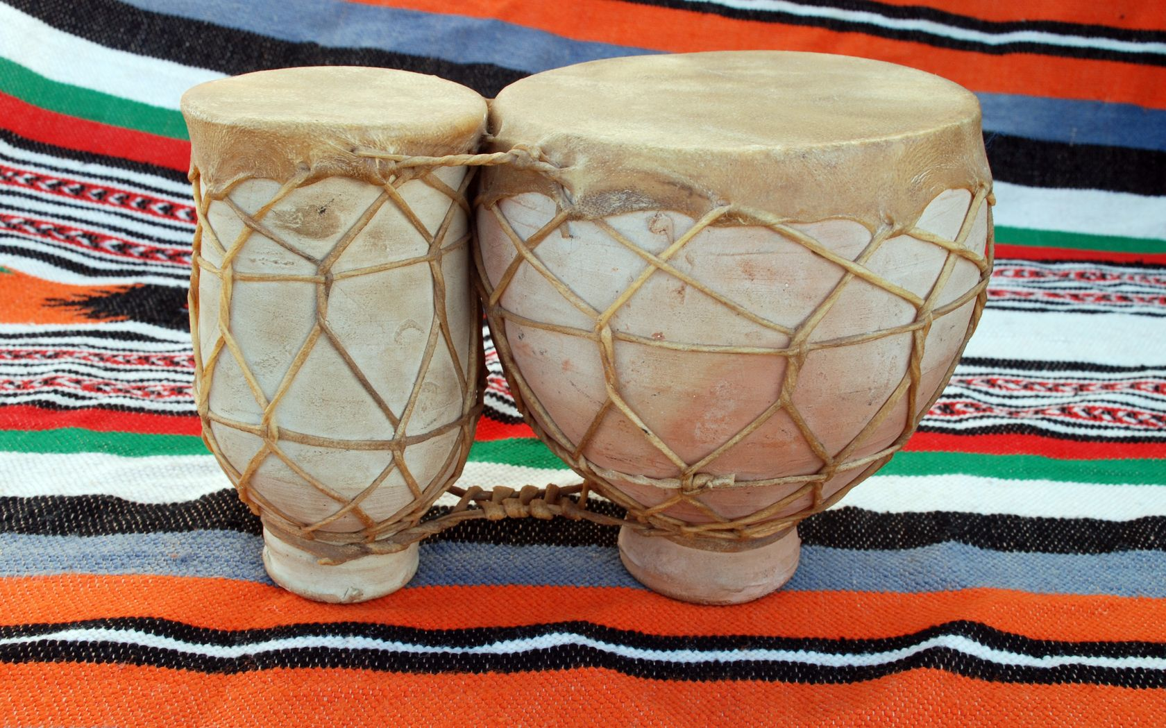 Tbilat, moroccan drum